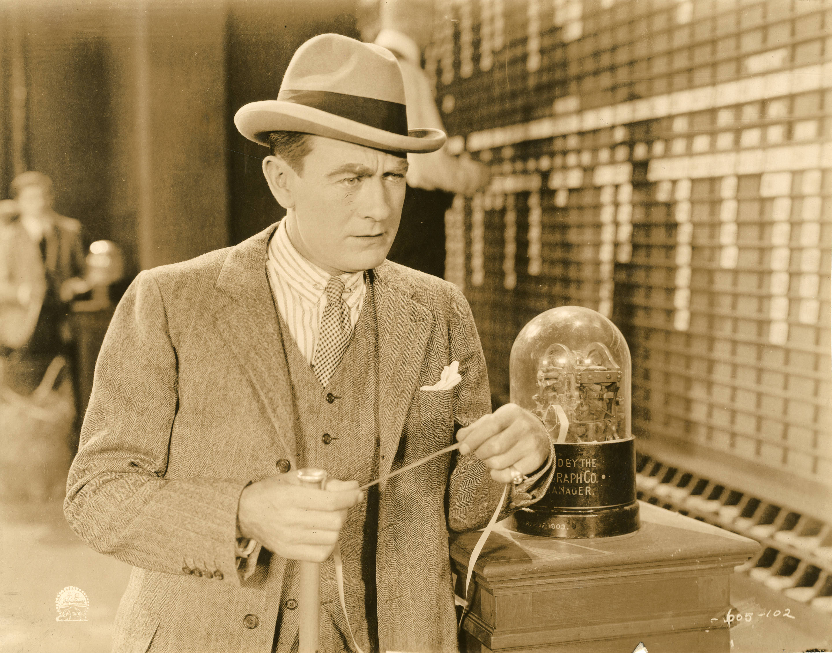 Owen Moore, film actor, from the film The Silent Partner (1923). Subjects: actors